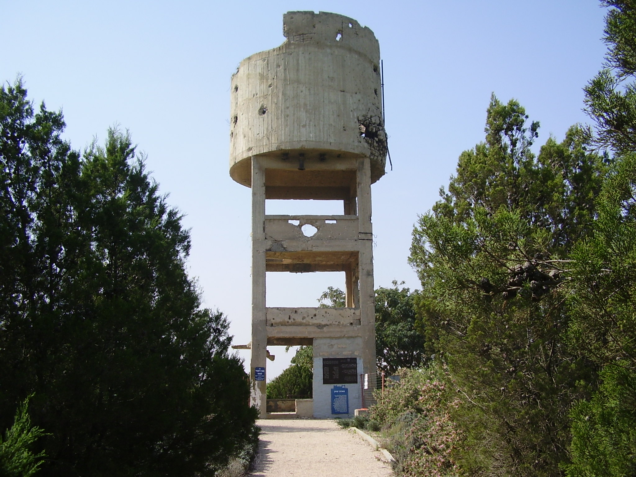 water tower war memorial in be'erot izhak (1948) in the negev מגדל המים בבארות יצחק הישנה